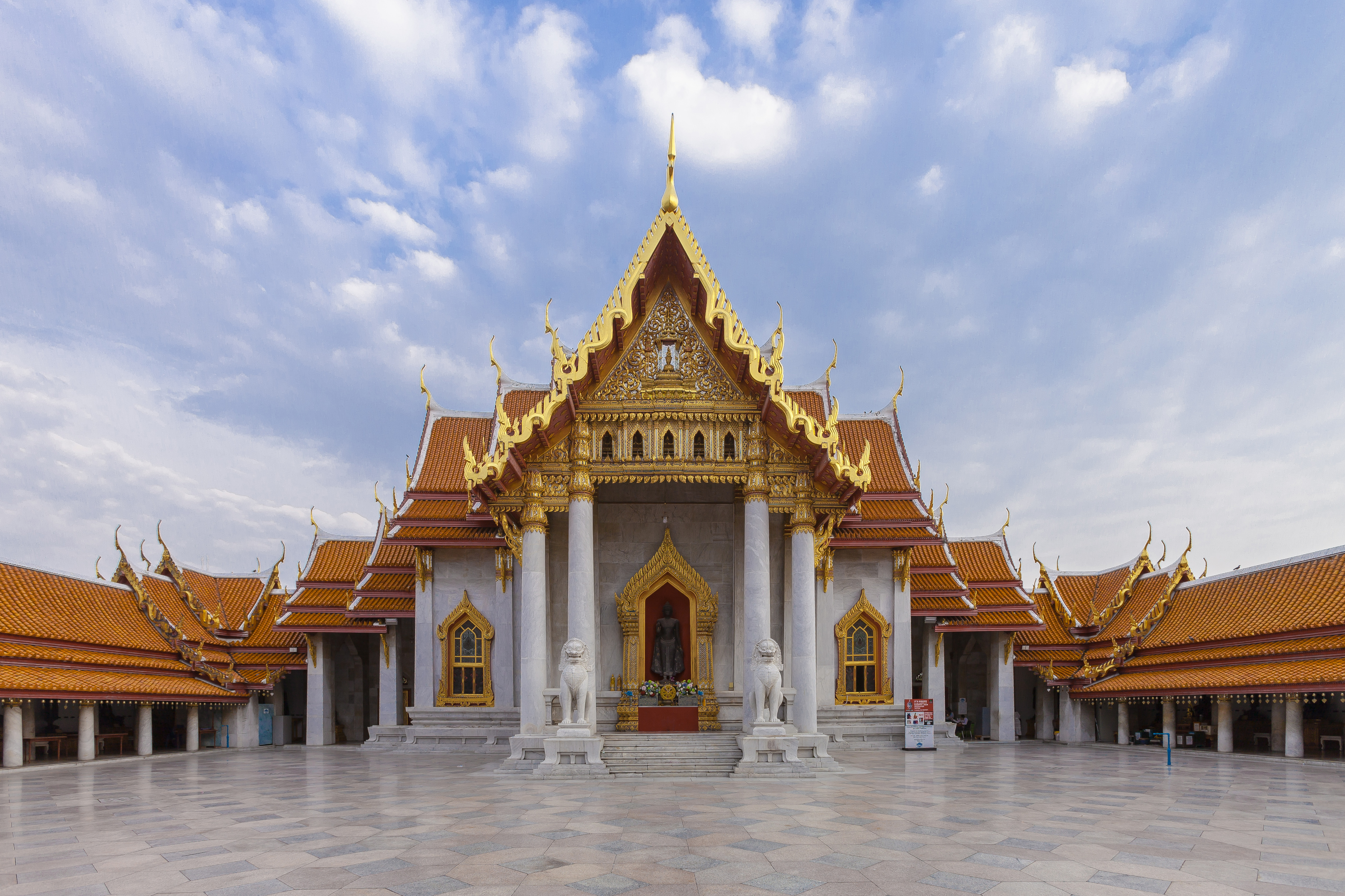 Wat Benchamabophit Dusitvanaram (Temple of the fifth King located nearby Dusit Palace, also: marble temple) is a buddhist temple (wat) in the Dusit District of Bangkok, Thailand.